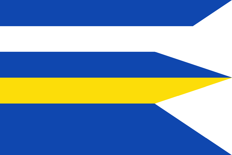 Flag of Paňa